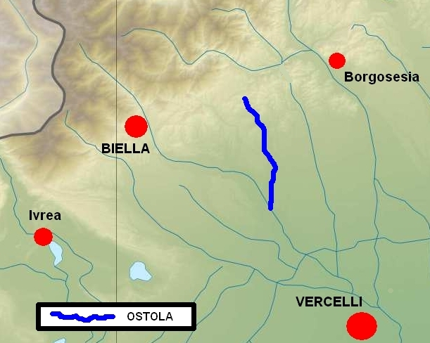 Location within central Piedmont (NW Italy)